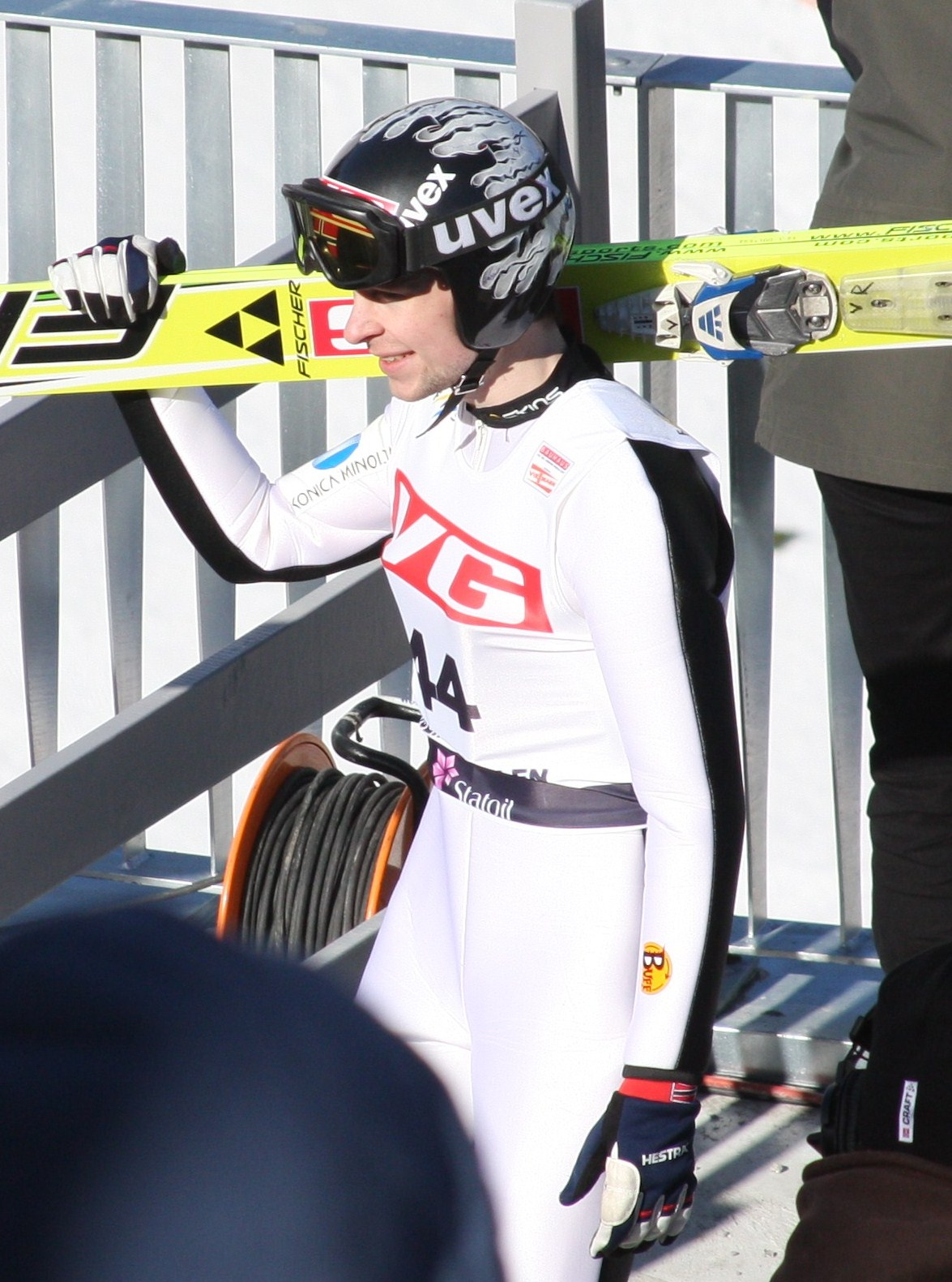 Anders Jacobsen (NOR) in WC Oslo, Holmenkollen 14 march 2010